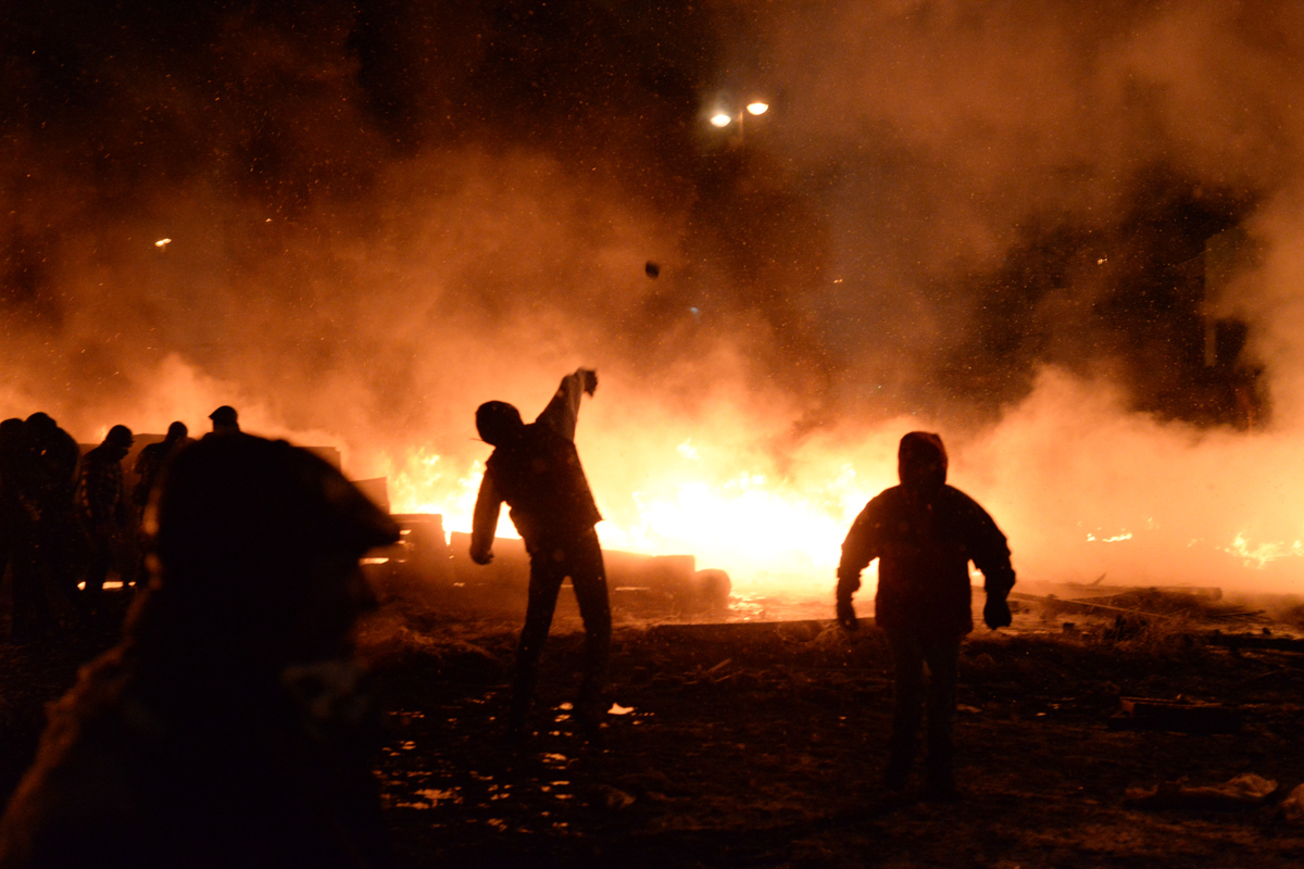 Protesters throwing tires to the fire set by the protesters to prevent internal forces from crossing the barricade line. Kyiv, Ukraine. Jan 22, 2014-5